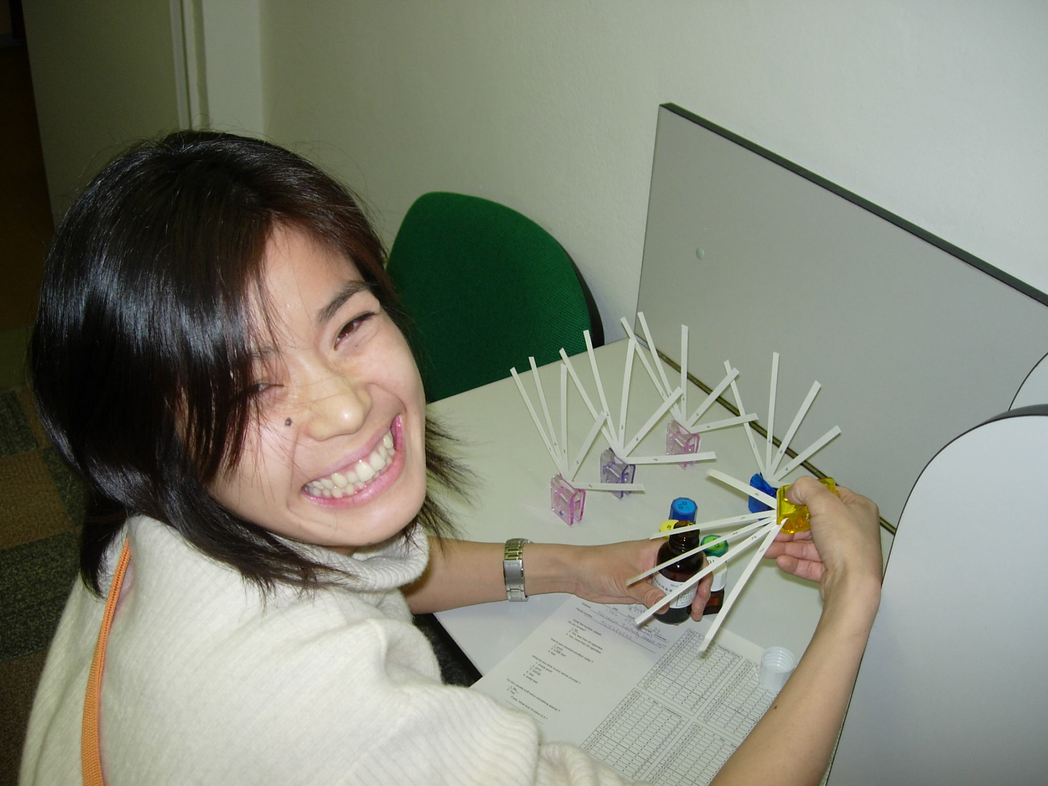 Selection of panel; Jap. (1)